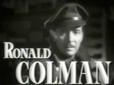 Cropped screenshot of Ronald Colman from the trailer for the film Random Harvest